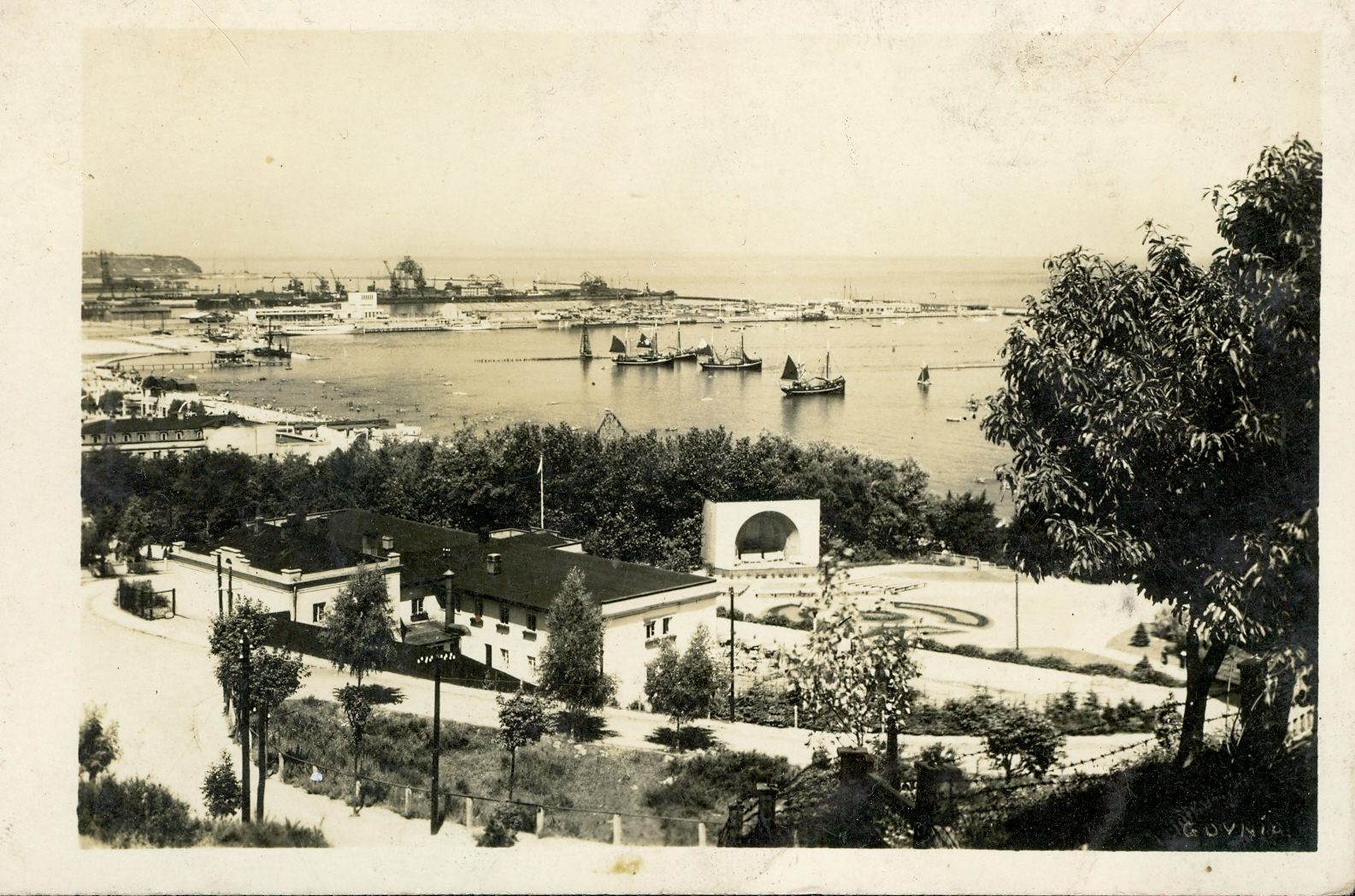 Gdynia